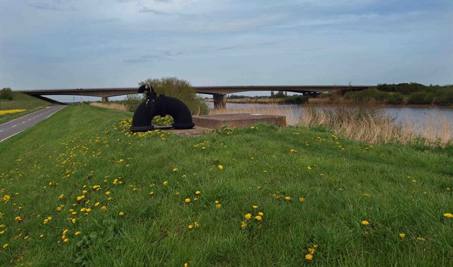 The M180 motorway crosses the River Trent There are no bridges south crossing the Trent until Gainsborough, what a diversion!